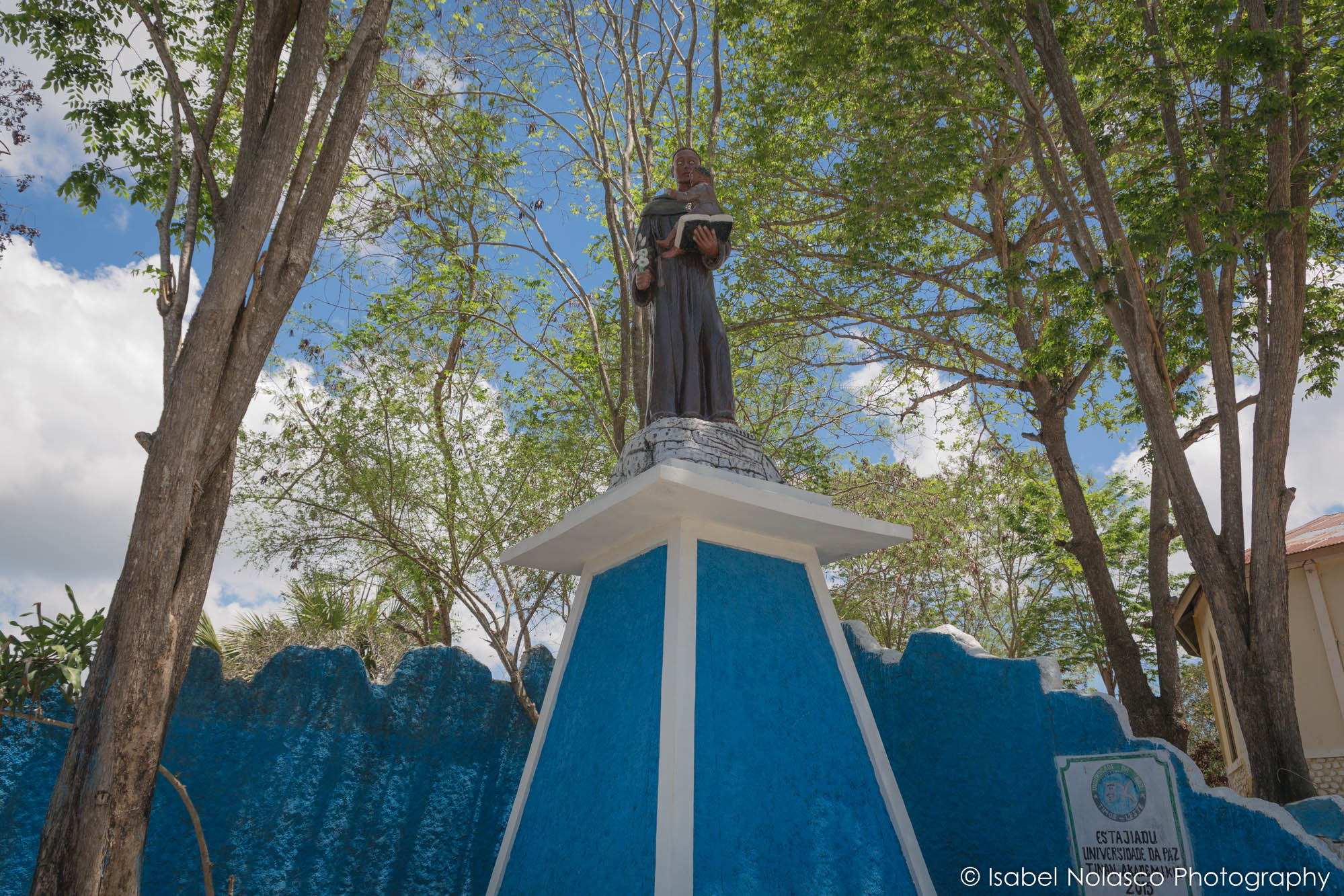 Statue of Saint Anthony of Padua in Balibo